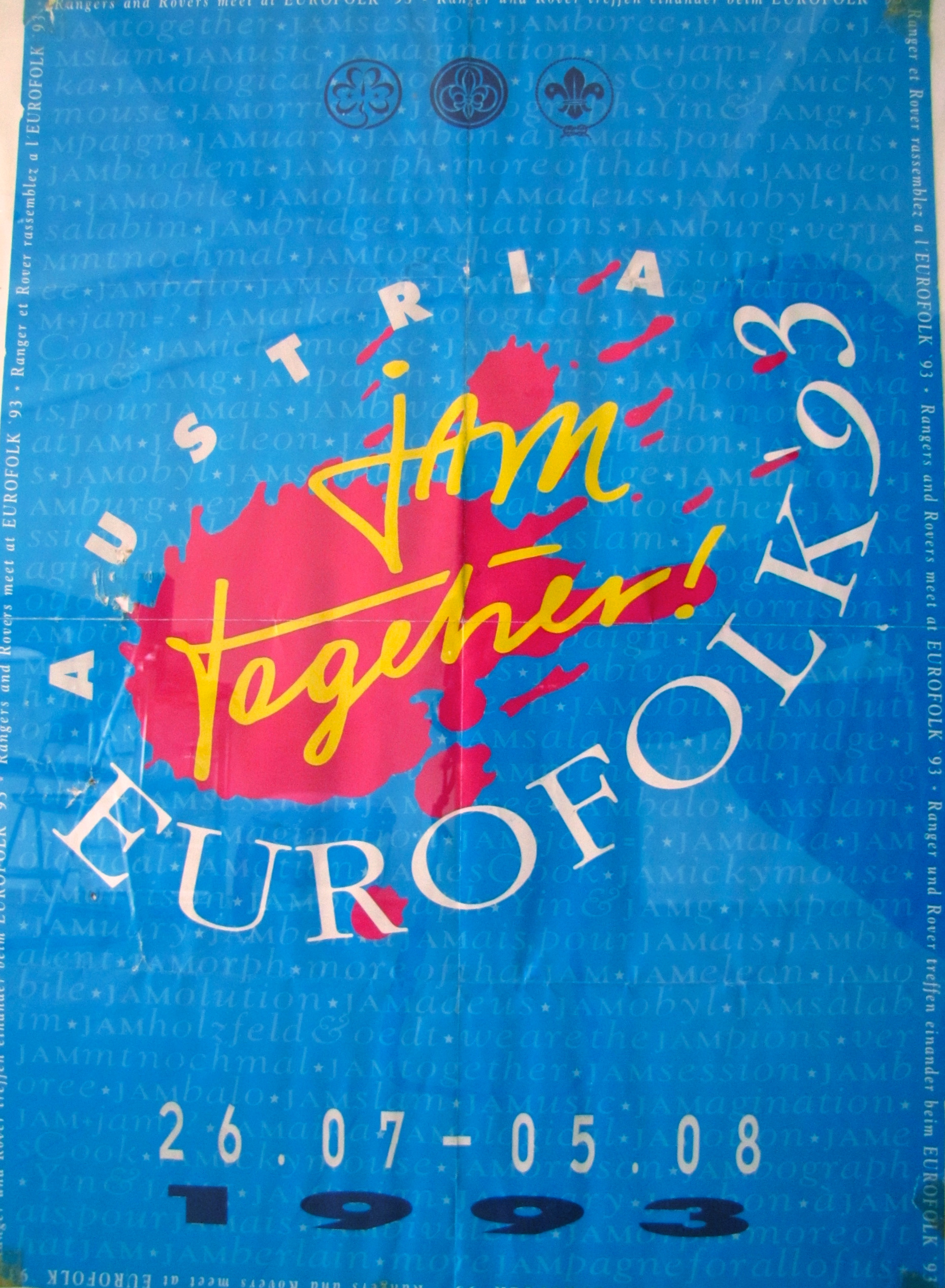 The Eurofolk '93 "Jam Togheter!" poster